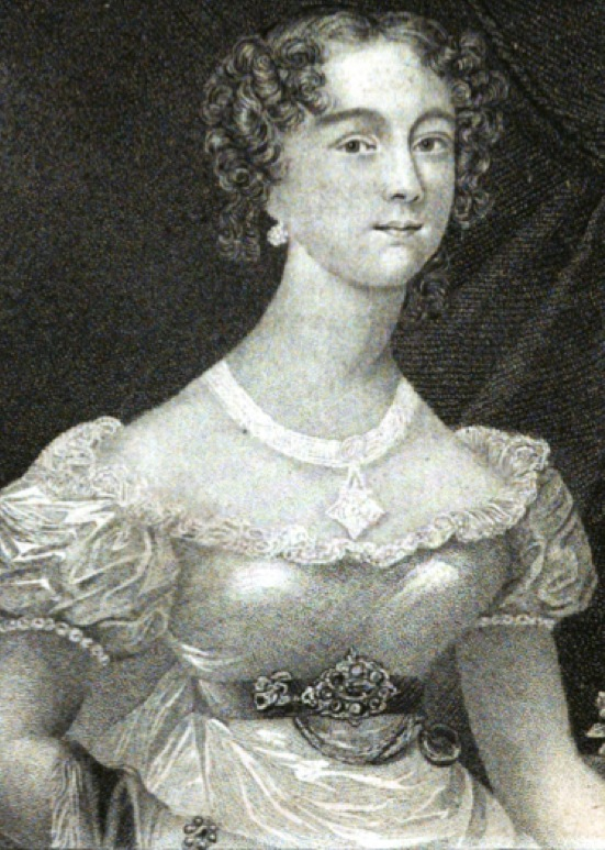 Ksenia Ivanovna Loginova, wife of John Dundas Cochrane. Portrait made ca. 1824